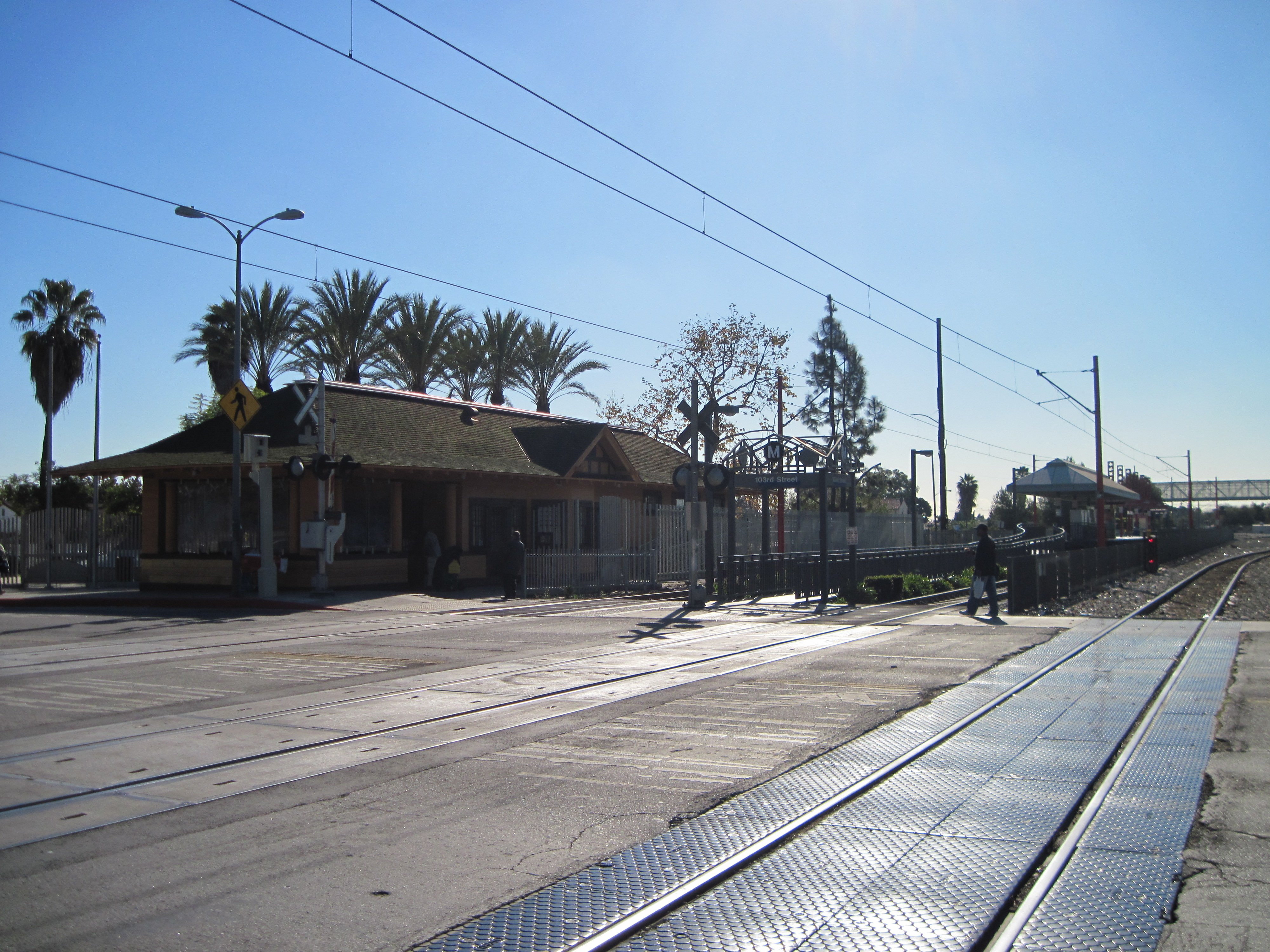 The Los Angeles County Metro Rail 103rd Street/Watts Towers station (aka: 103rd Street/Kenneth Hahn station) — serving the Metro Blue Line, in the Los Angeles County Metropolitan Transportation Authority system. Adjacent is the historic Watts Station (on left), in :Watts, South Los Angeles, California.